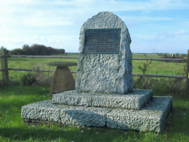 Battle of Sedgemoor memorial stone Where the Duke of Monmouth was defeated by royalist forces.